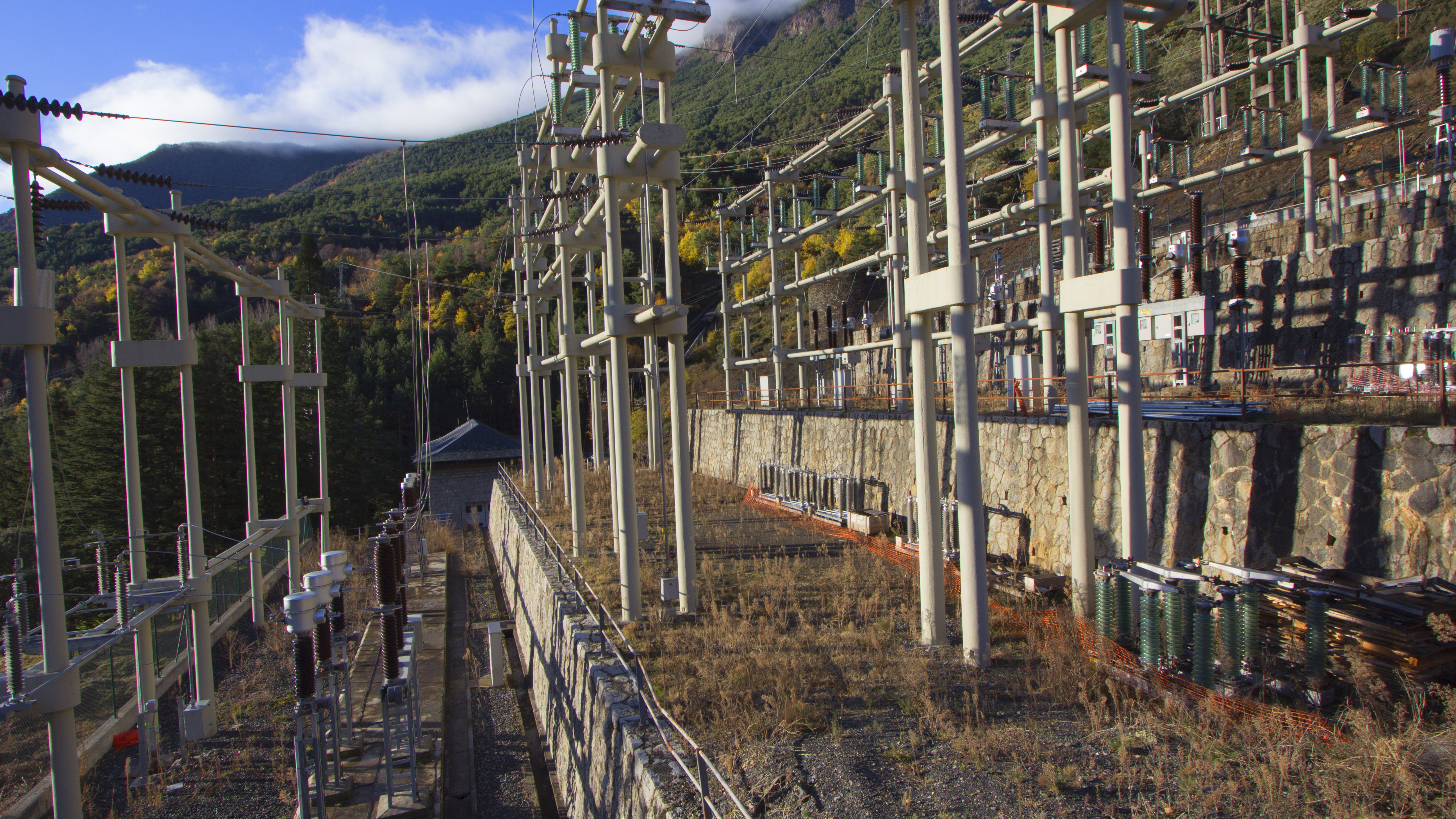 Concrete constructions of the Espot hydropower plant's electric substation(Catalonia)